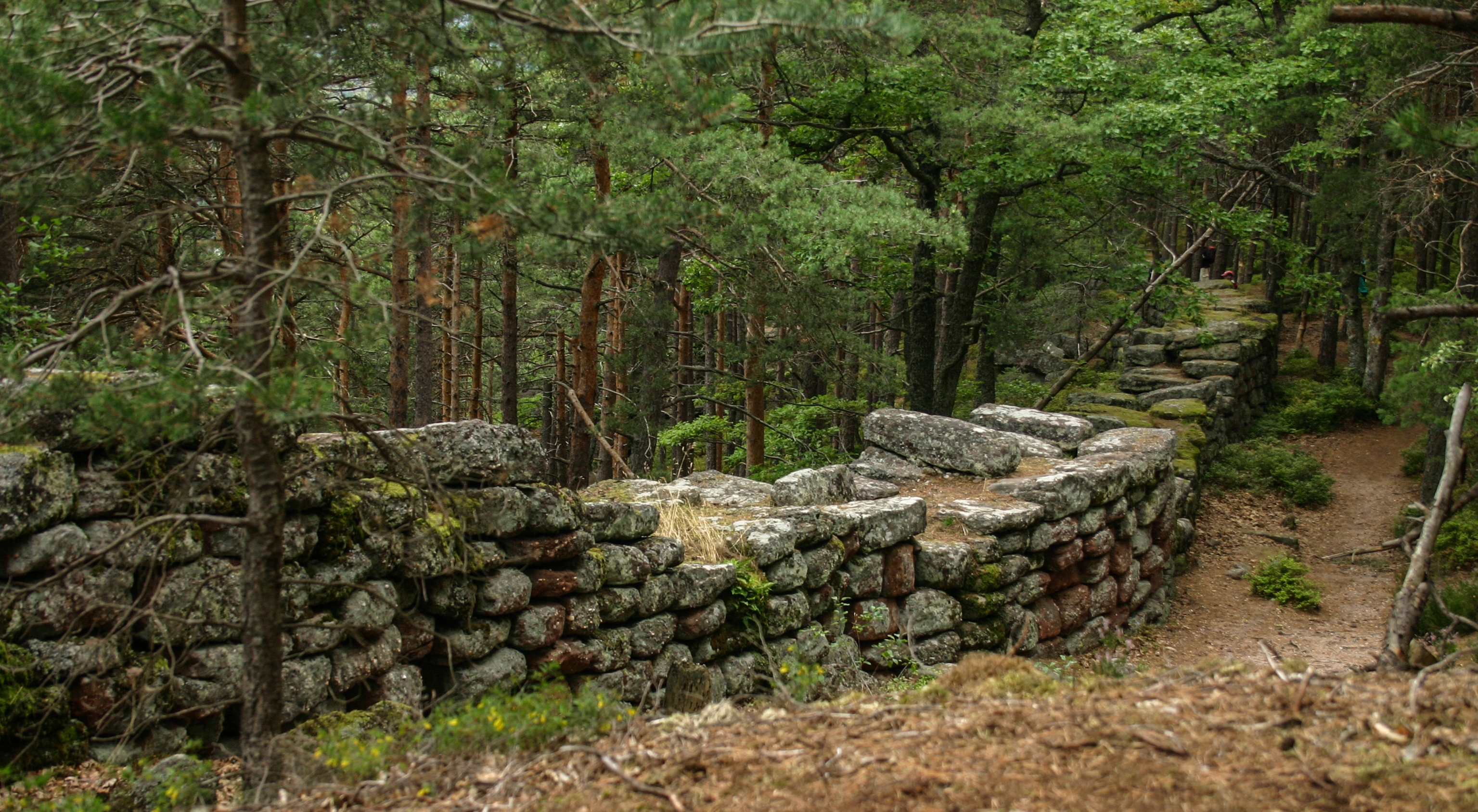 Pagan Wall, Mont Sainte-Odile, Alsace, France